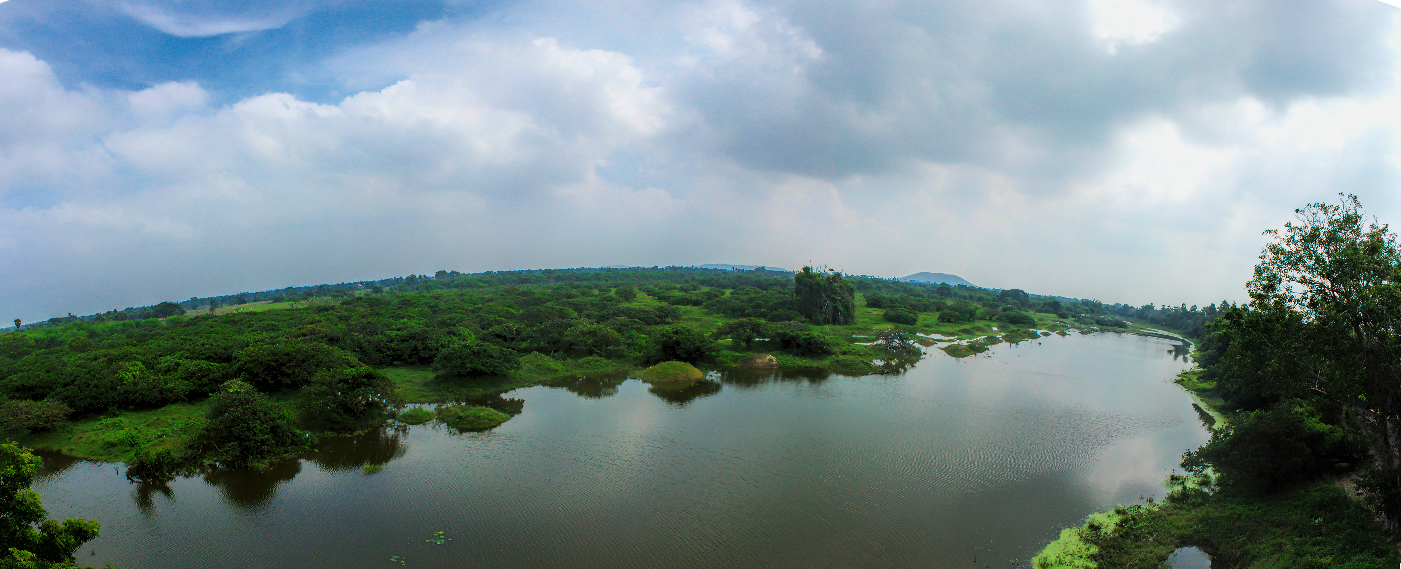 Taken at Vedanthangal, India